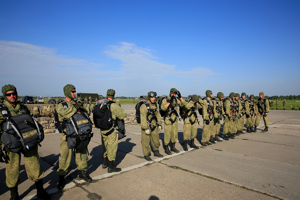 Jumping of the 22nd Separate Guards Special Purpose Brigade with "Arbalet-2".